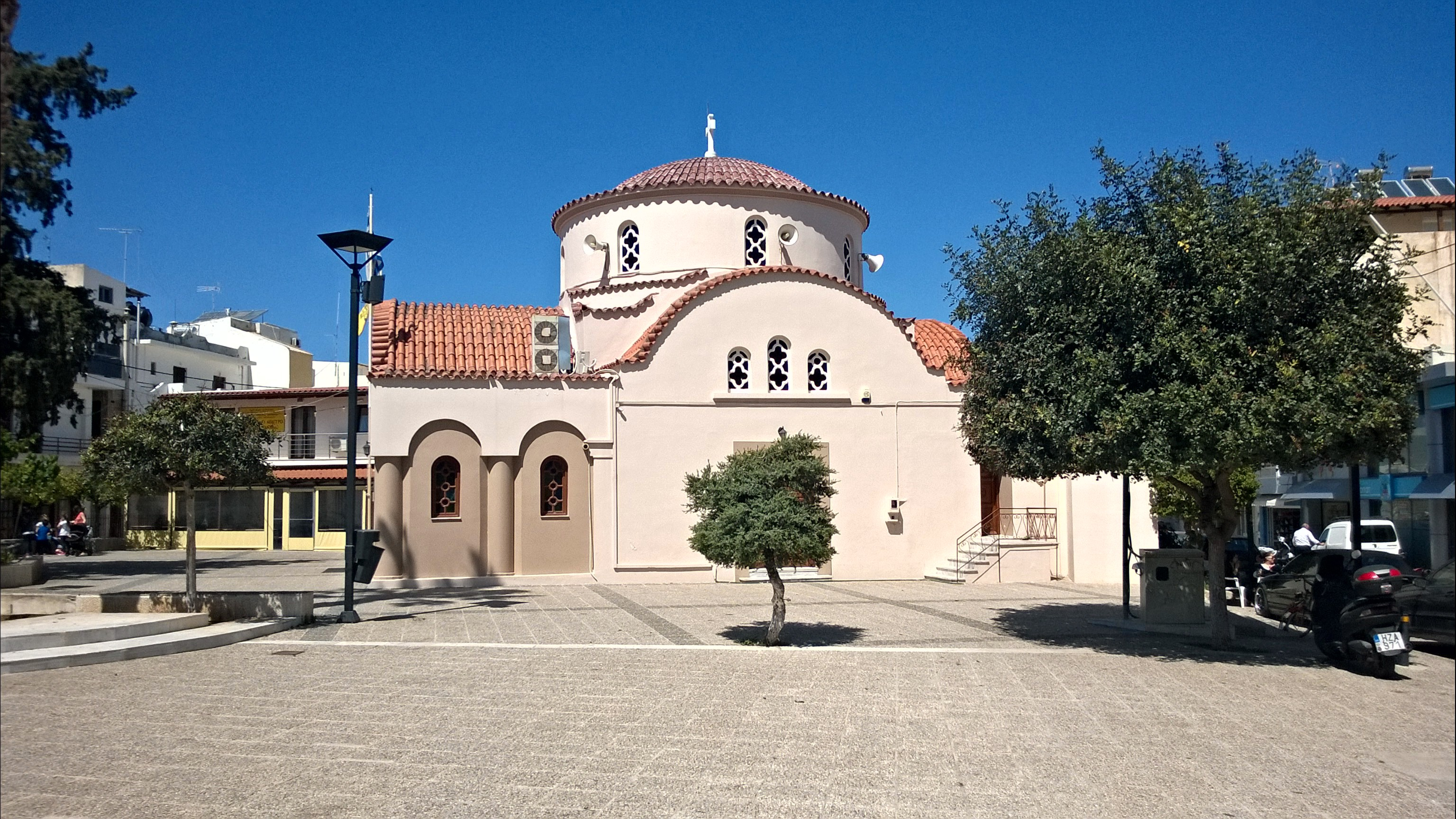 Limenas Chersonisou